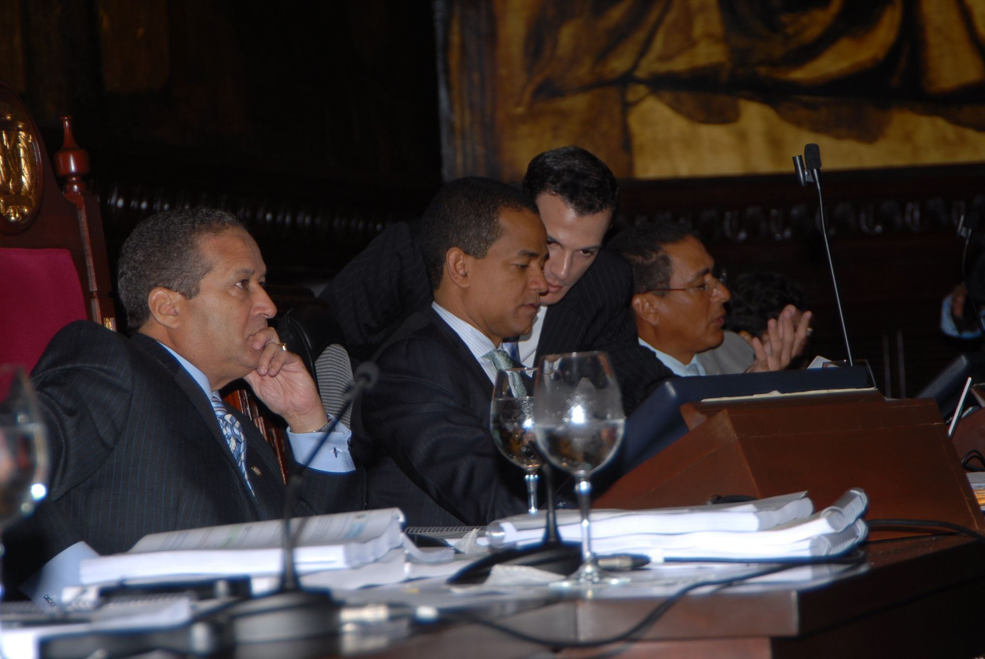 Julio César Valentín Reinaldo Pared Pérez